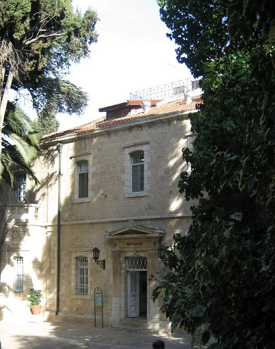 Mahanaim building, Jerusalem, Israel.